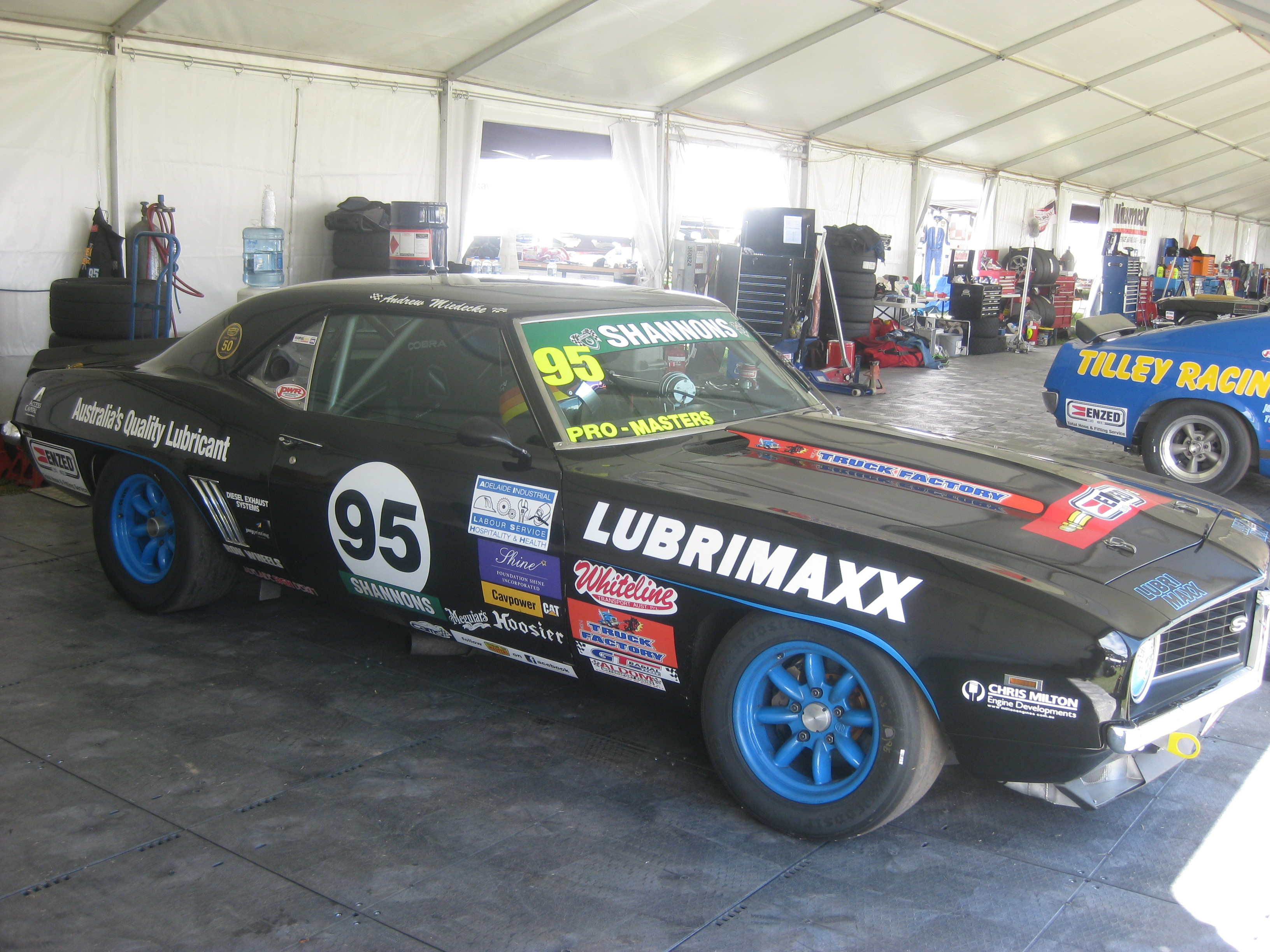 1969 Chevrolet Camaro SS of Andrew Miedecke. Round 1, 2014 Touring Car Masters, Adelaide Parklands Circuit.